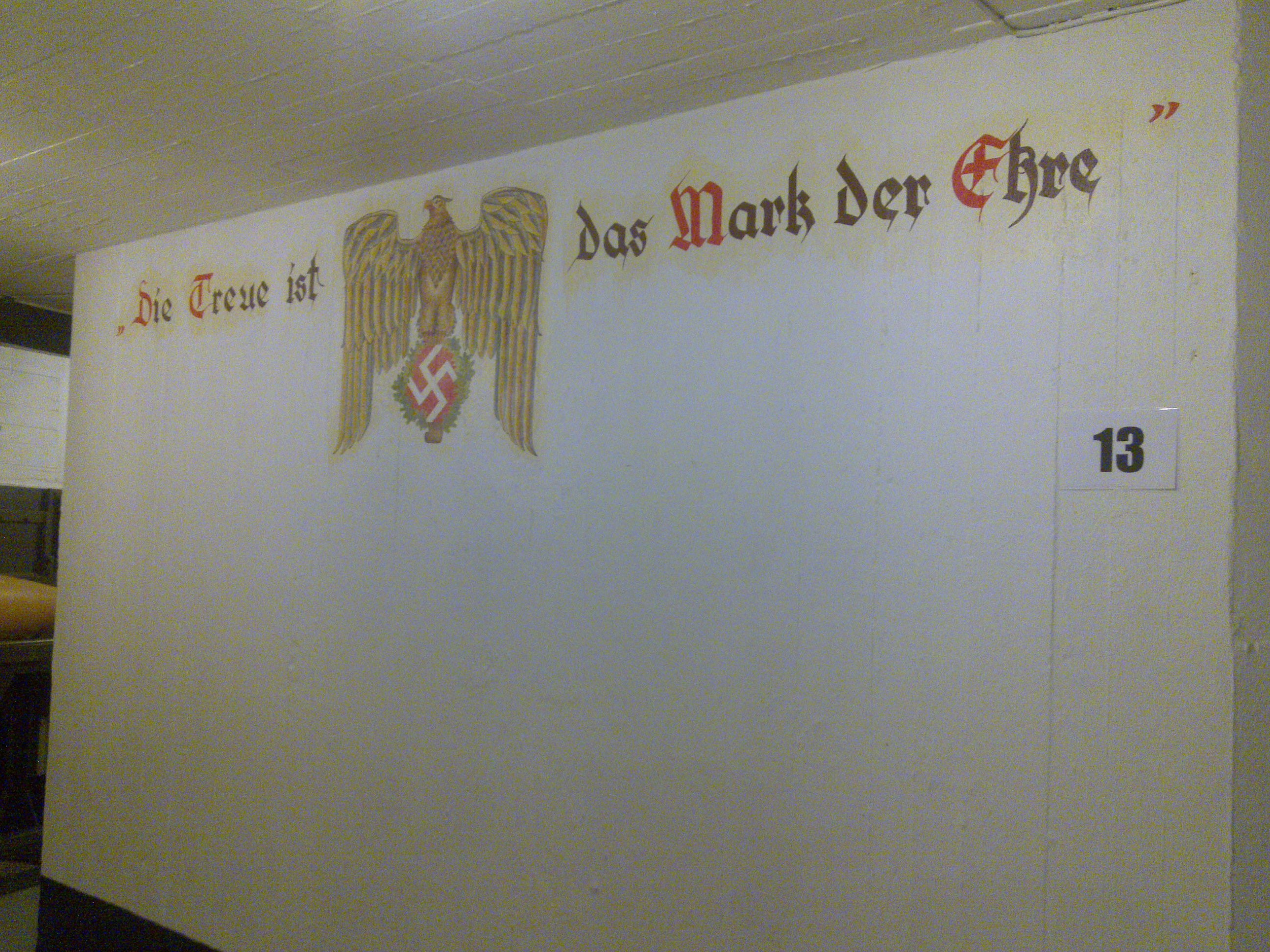 Batterie Vara, Kristiansand (Norway). Restored wall painting: "Lojalty is the mark of honour".